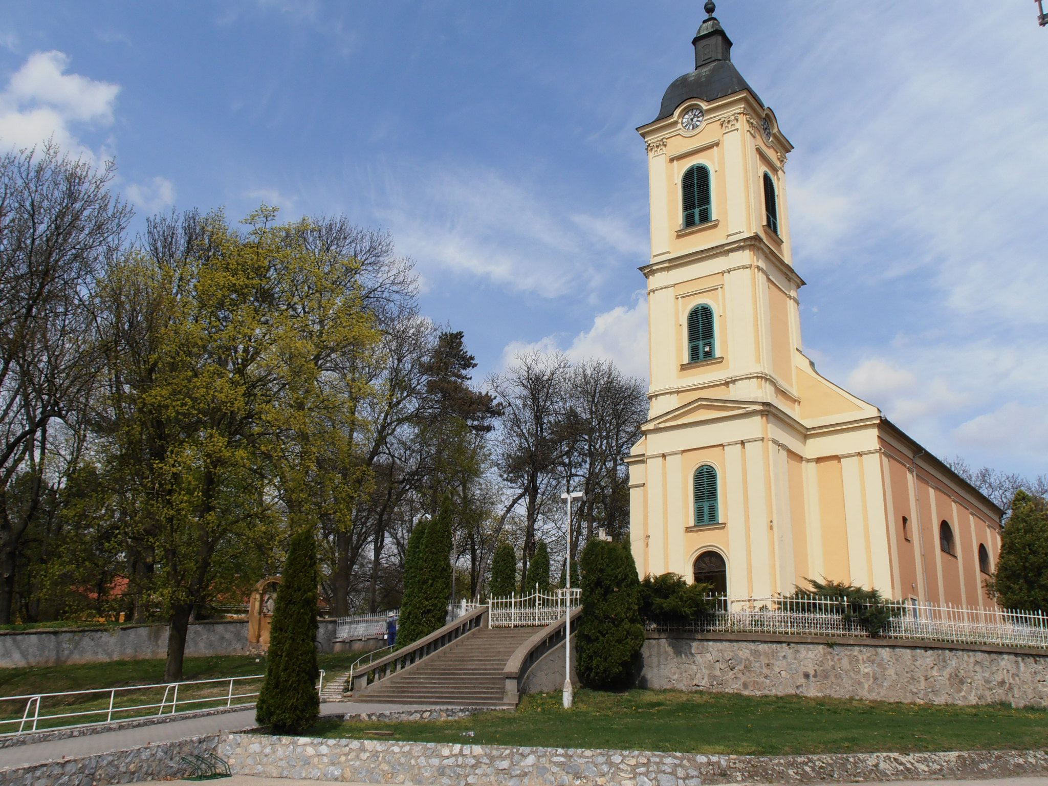 Holy Trinity catholic church, Putnok, Hungary Szentháromság-templom, Putnok